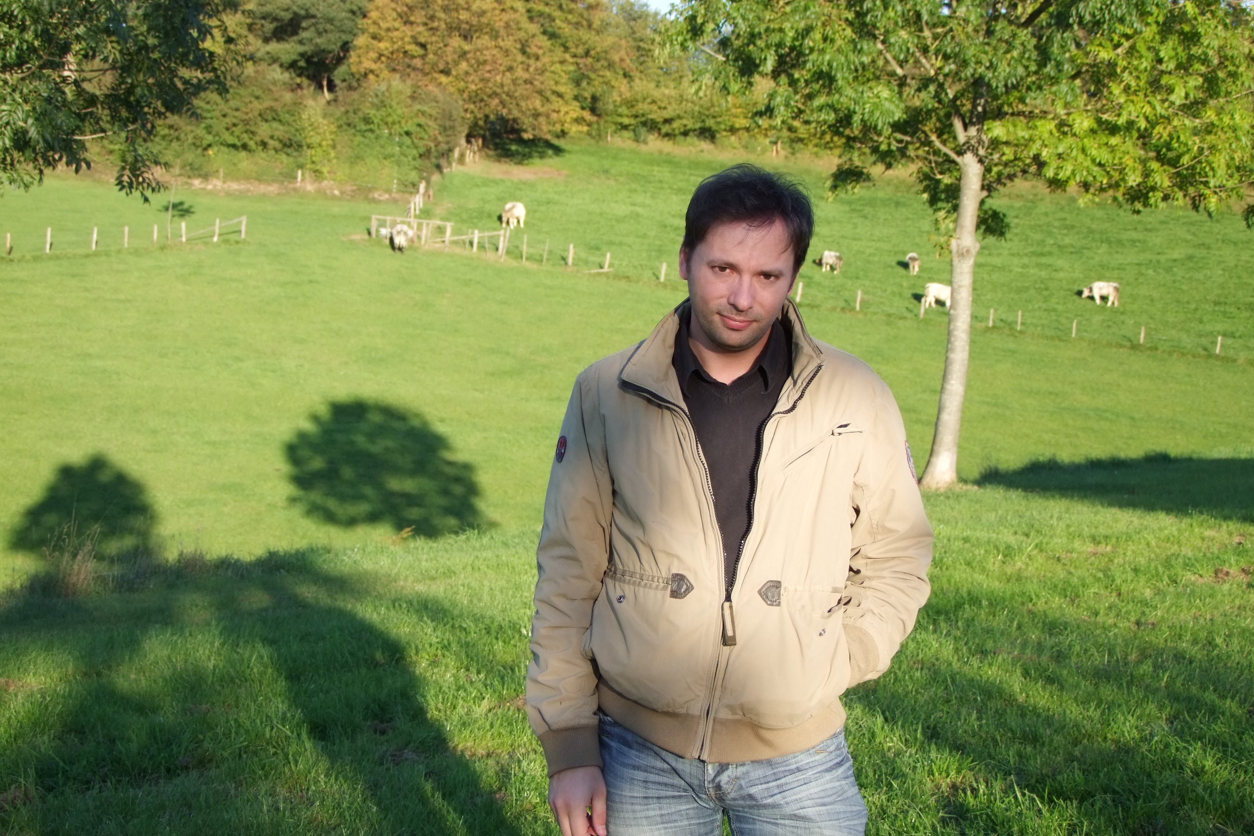 Steve Van Bael